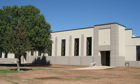 Asher School (after renovation).